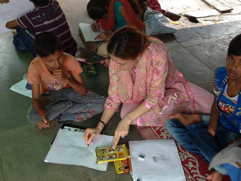 A picture of the artist at a social event